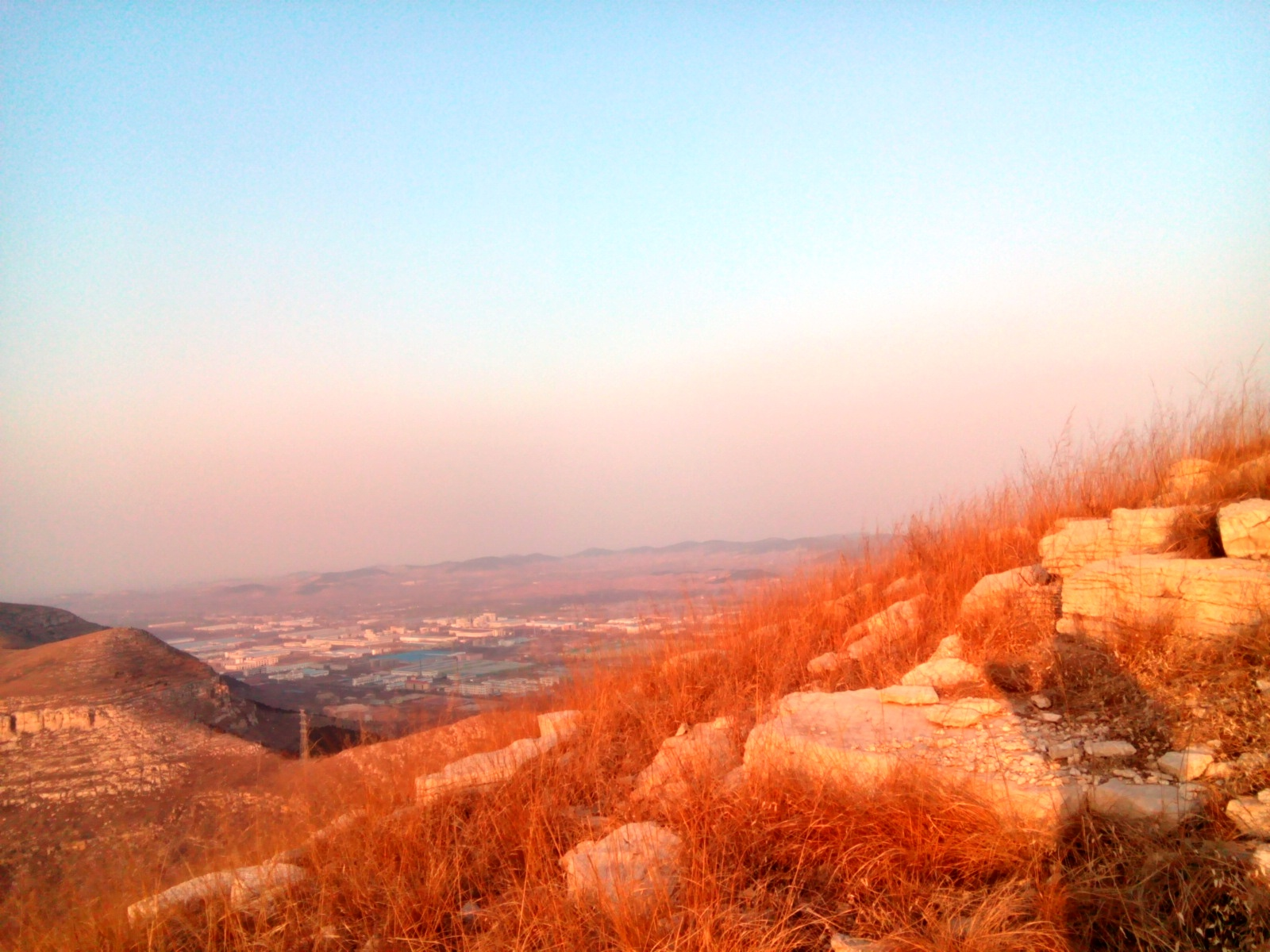 White Buddha Hill